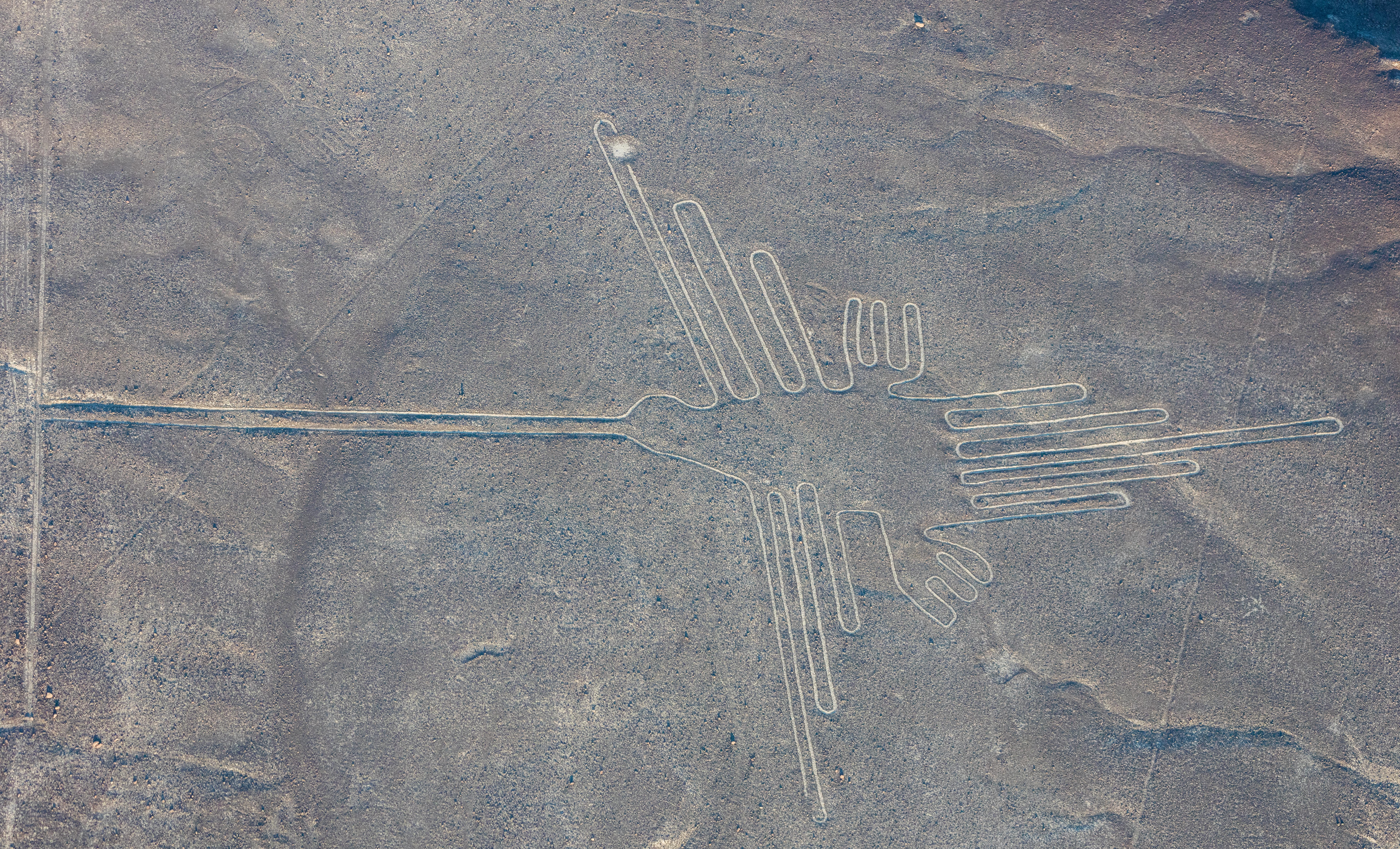 Aerial view of "The Hummingbird", one of the most popular geoglyphs of the Nazca Lines, which are located in the Nazca Desert in southern Peru. The geoglyphs of this UNESCO World Heritage Site (since 1994) are spread over a 80 km (50 mi) plateau between the towns of Nazca and Palpa and are, according to some studies, between 500 B.C. and 500 A.D. old.